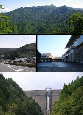 Ino montage